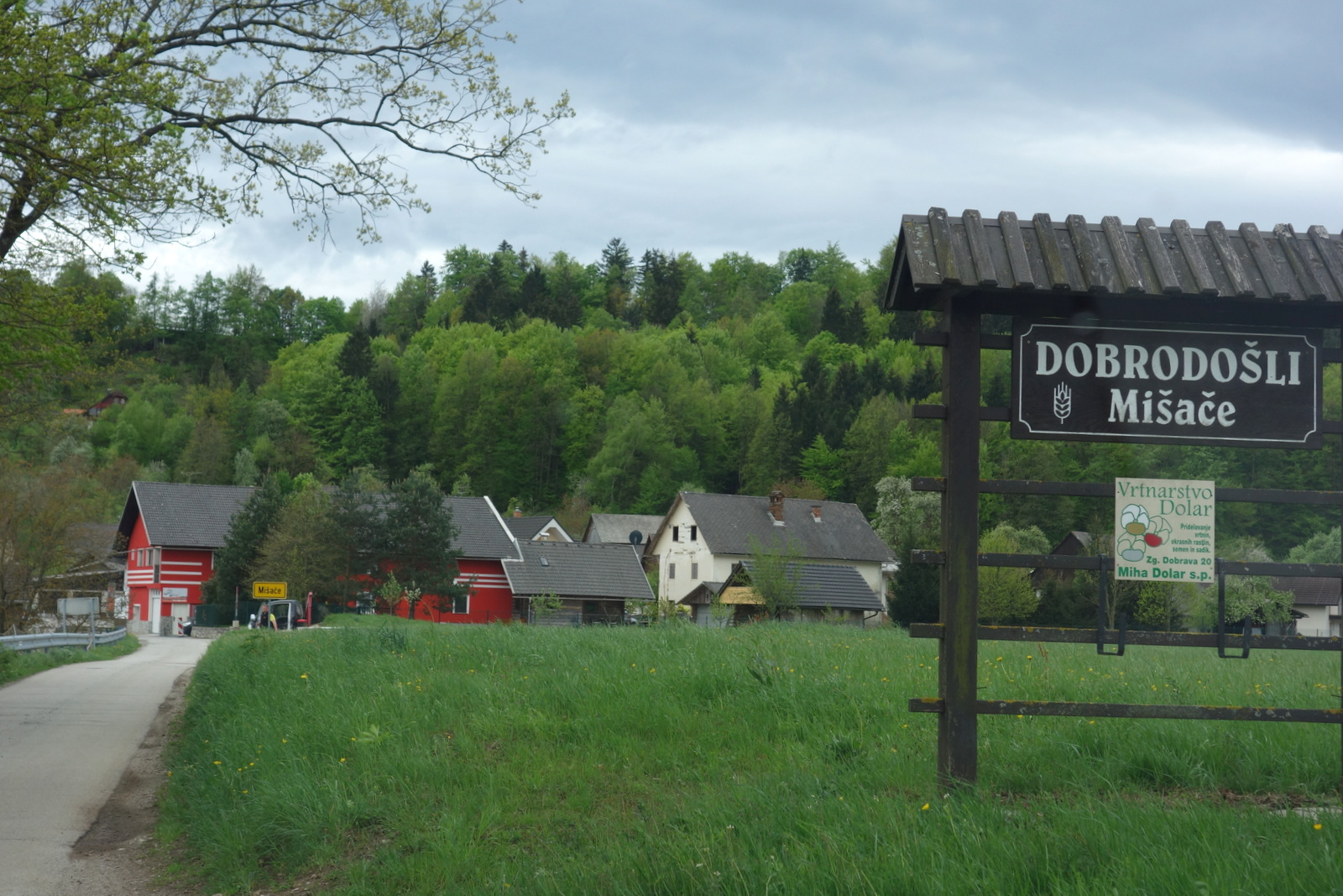 Mišače: Tomažovec in Koničar